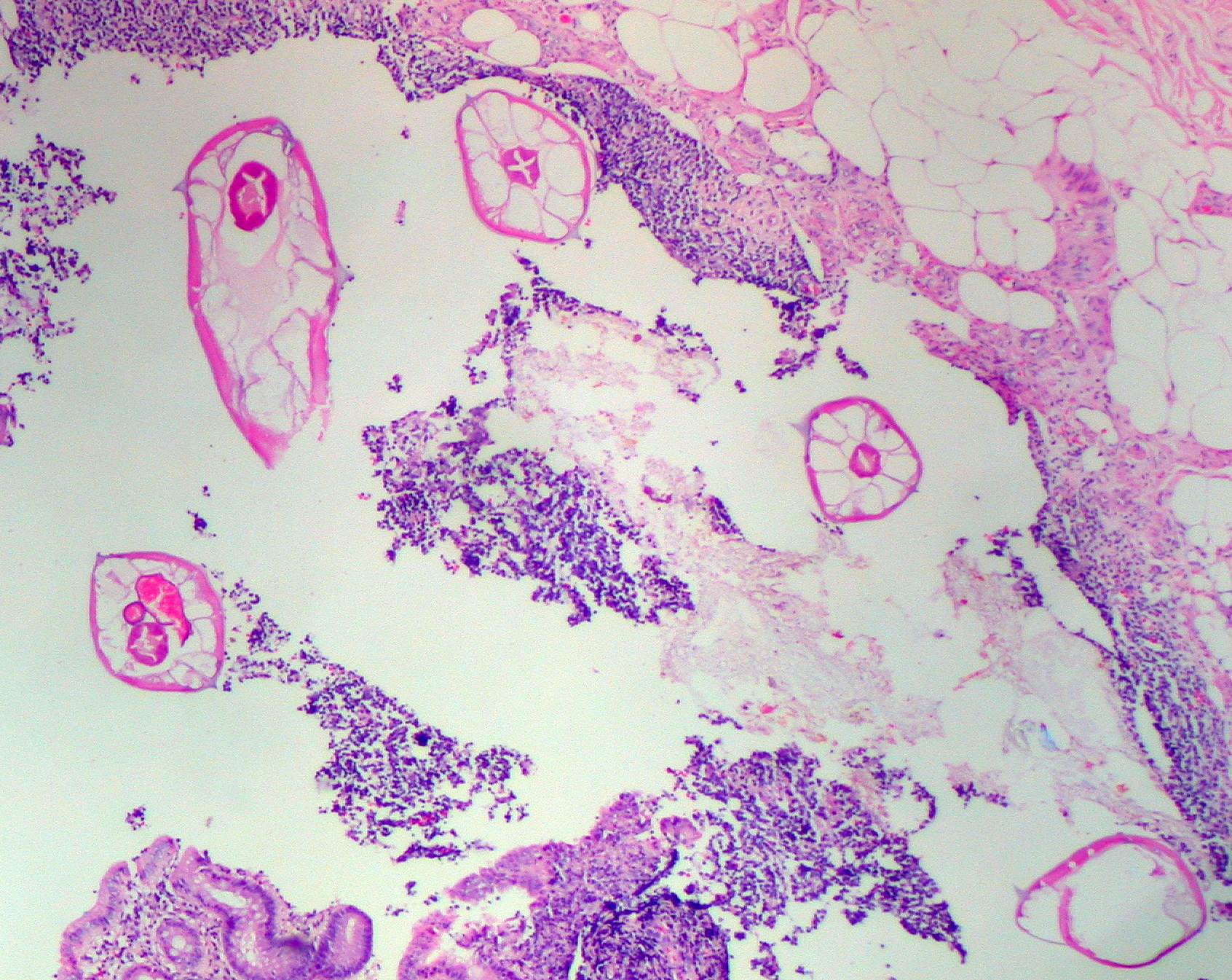 Pinworms in the Appendix Cross sections of these pinworms (Enterobius vermicularis) were an incidental finding in this middle-aged patient who underwent a hysterectomy and staging procedure for adenocarcinoma of the endometrium. The lateral "spines" (actually longitudinal blade-like ridges running the length of the worm) are identifying features of the pinworm